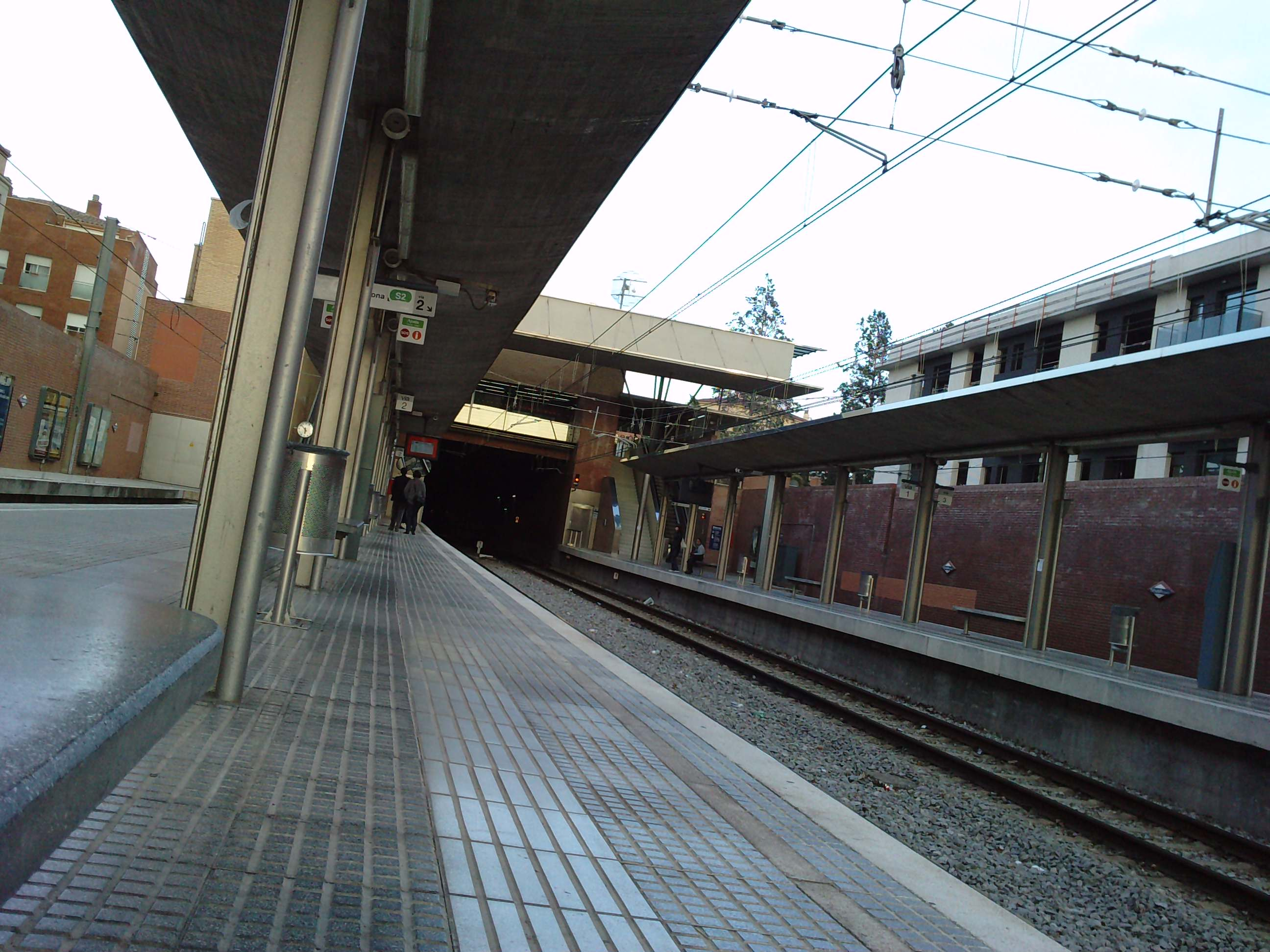 Sabadell Estació train station in Sabadel, Catalonia